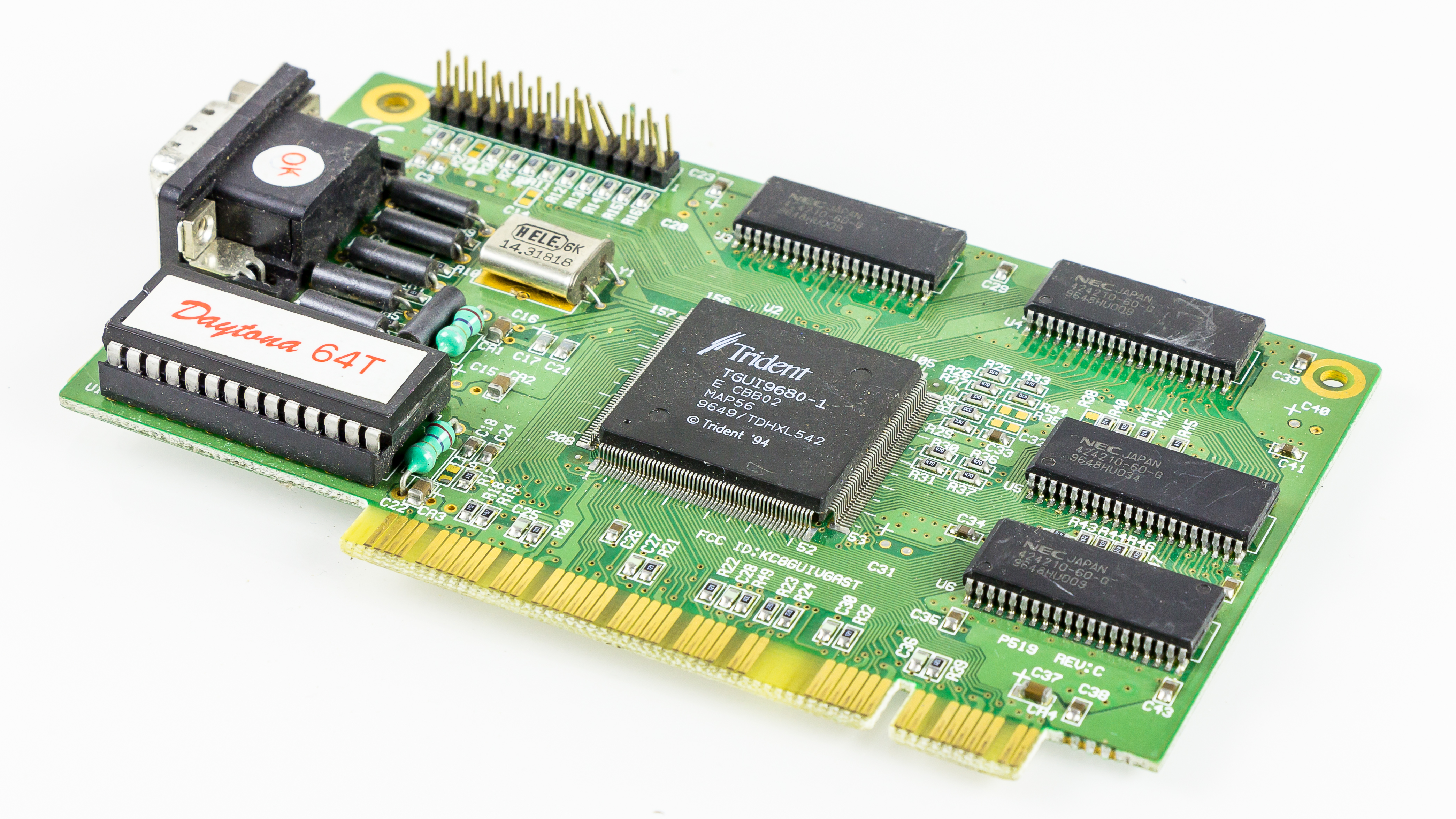 Daytona 64T. VGA graphic card based on chipset Trident TGUI9680. Manufacturer: Palit Microsystems (FCC ID KC8GUIVGAST)